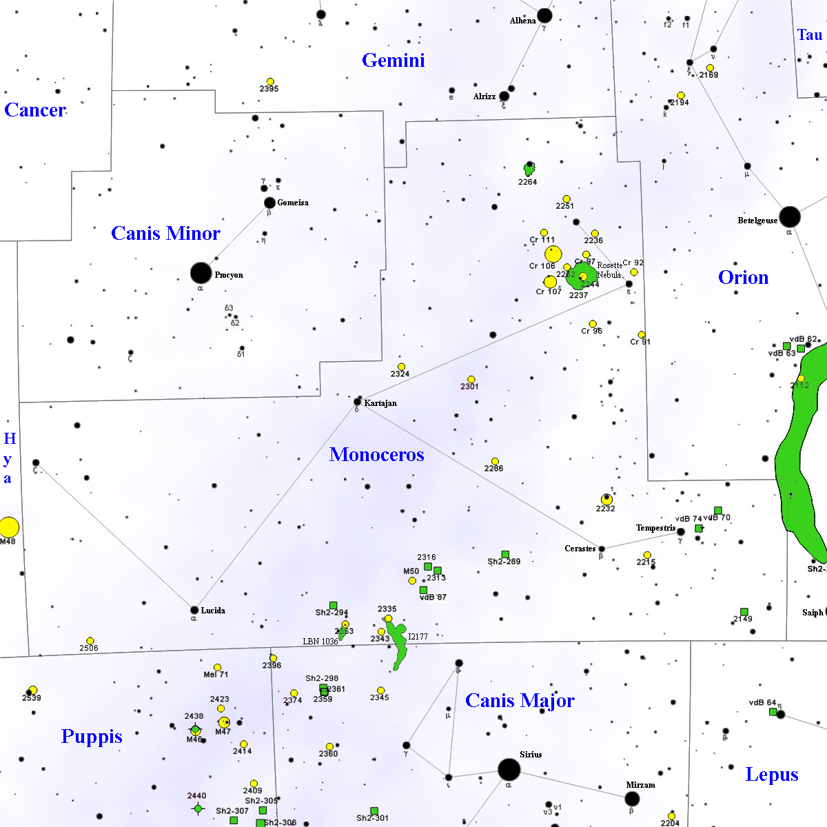 Monoceros constellation map, with DSOs